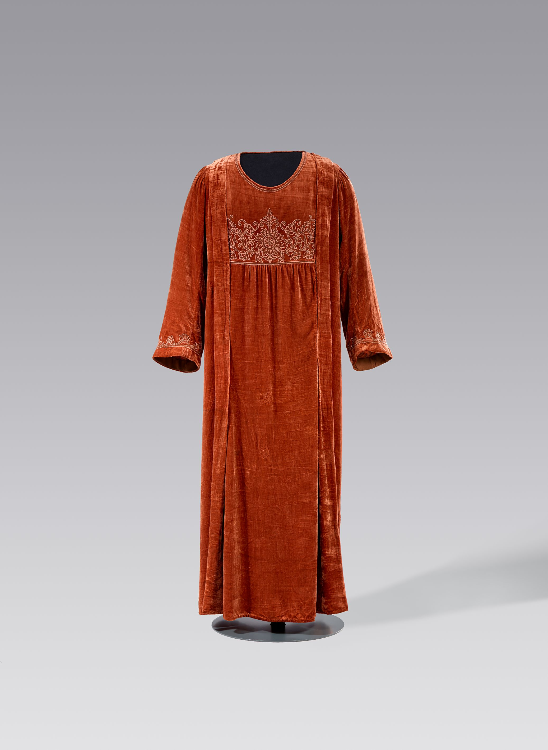 Reform dress, embroidery, red brown velvet, about 1910. Repository of Historisches Museum Frankfurt (Historical Museum Frankfurt) No. X.1963.007. Veröffentlicht in Dorothee Linnemann (Hrsg.): Damenwahl! 100 Jahre Frauenwahlrecht. Begleitbuch zur Ausstellung. Societäts-Verlag, Frankfurt am Main 2018, ISBN 978-3-95542-306-3, p. 32.